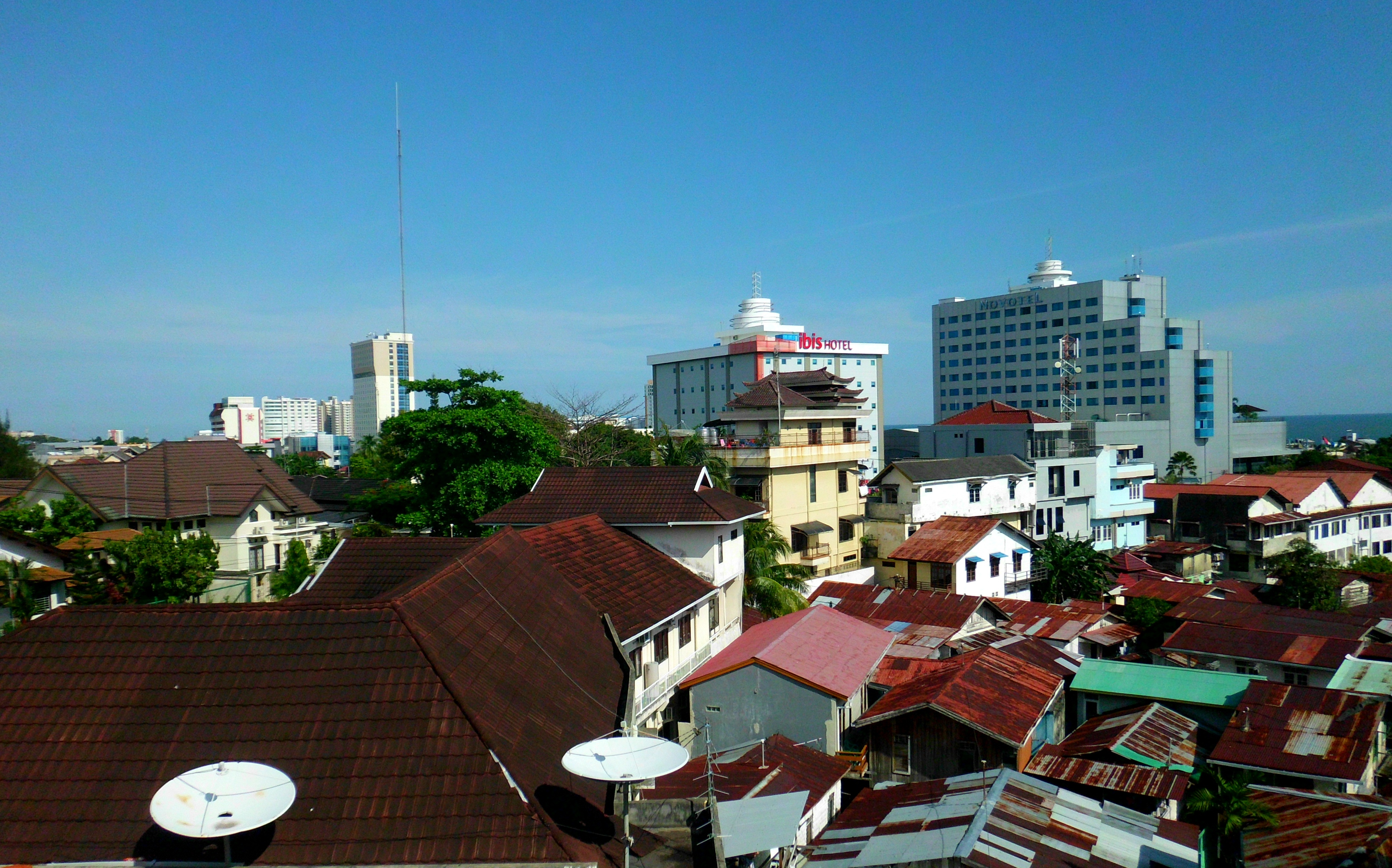 The southern part of Balikpapan as seen from the STTM Ery Building.